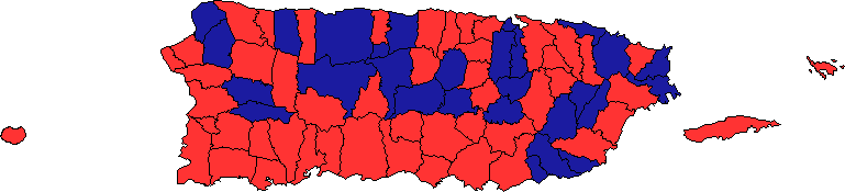 Puerto Rican general election, 2000 map.